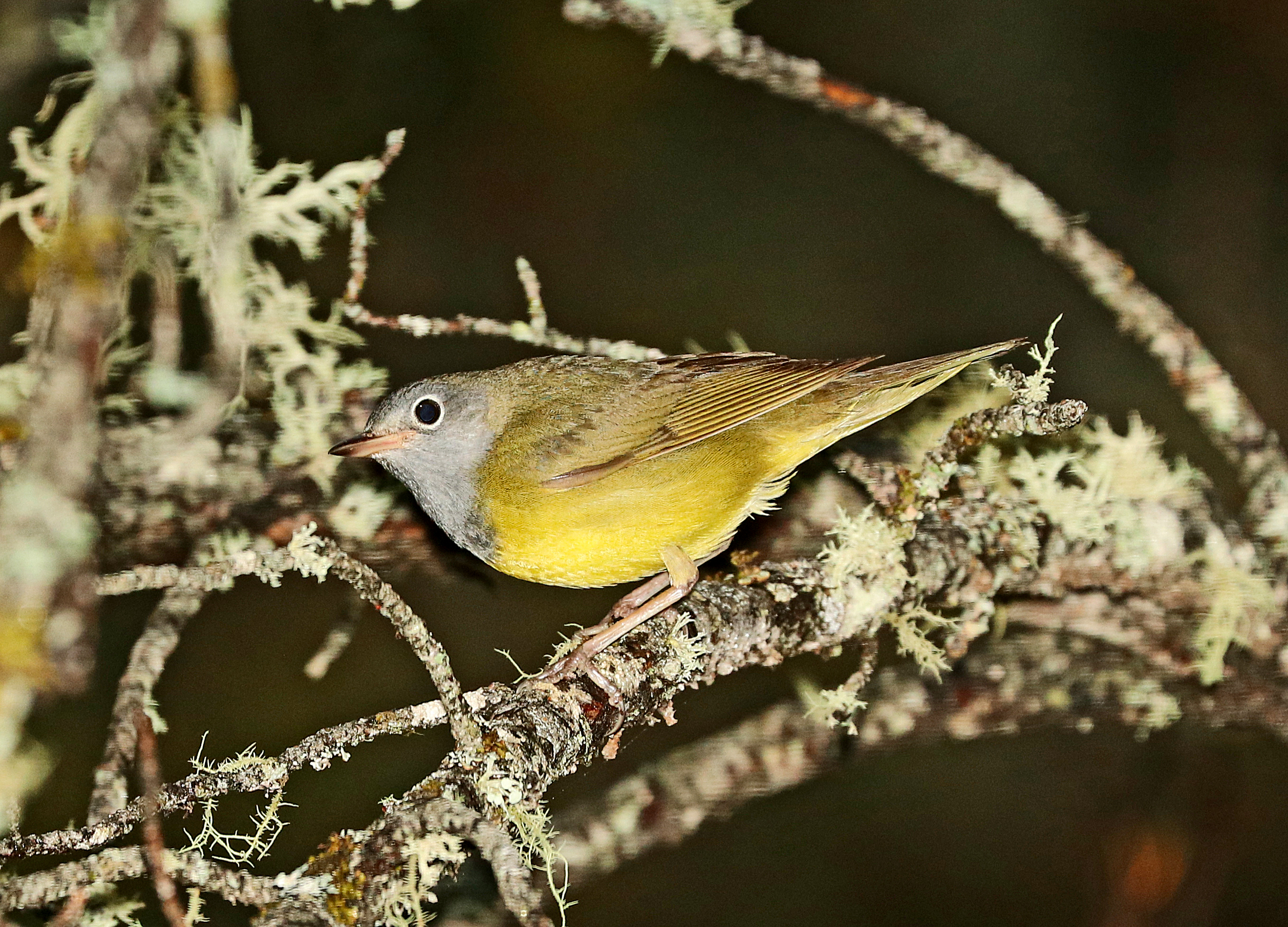 813 - CONNECTICUT WARBLER (6-6-2018) south county line road, bayfield county, wi -04